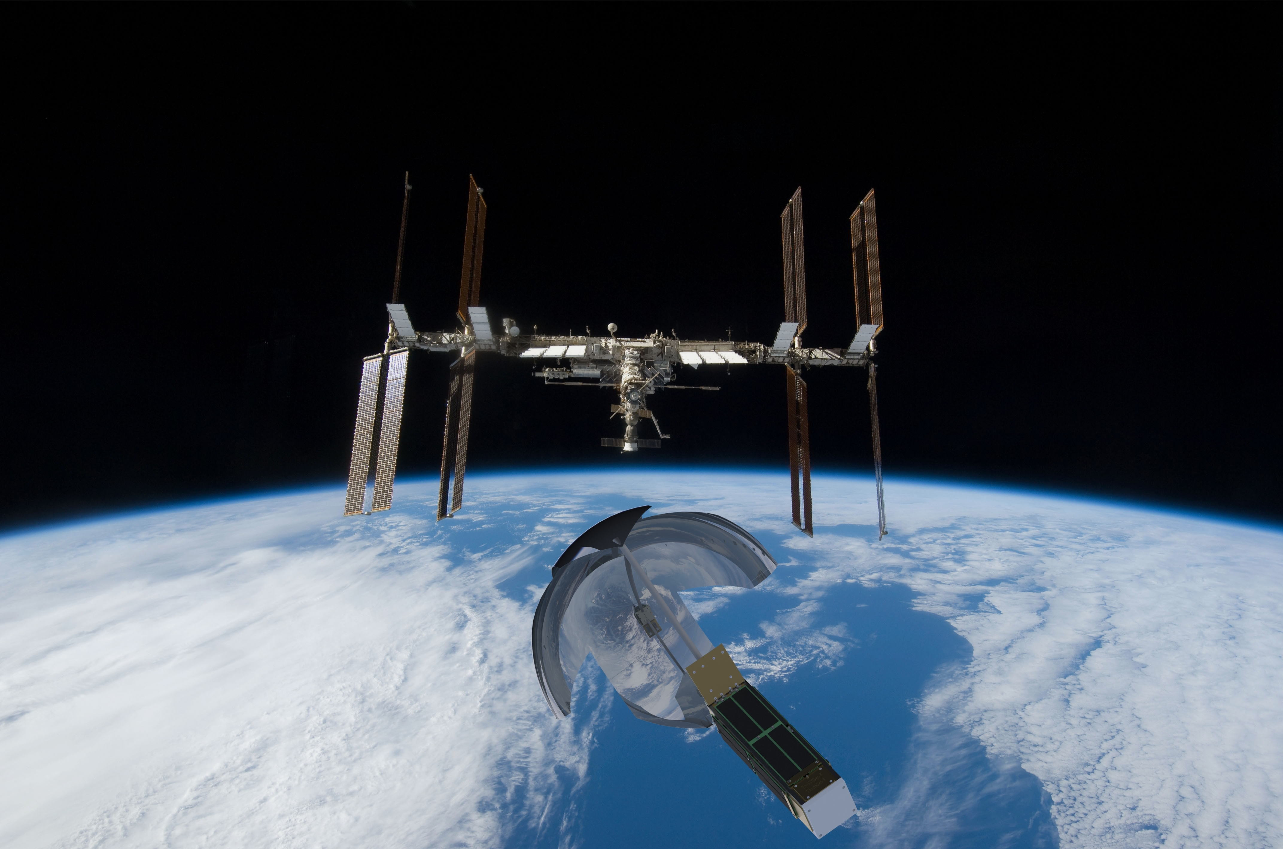 Artists conception of the TechEdSat-5 satellite with its Exo-Brake deployed after release from the International Space Station